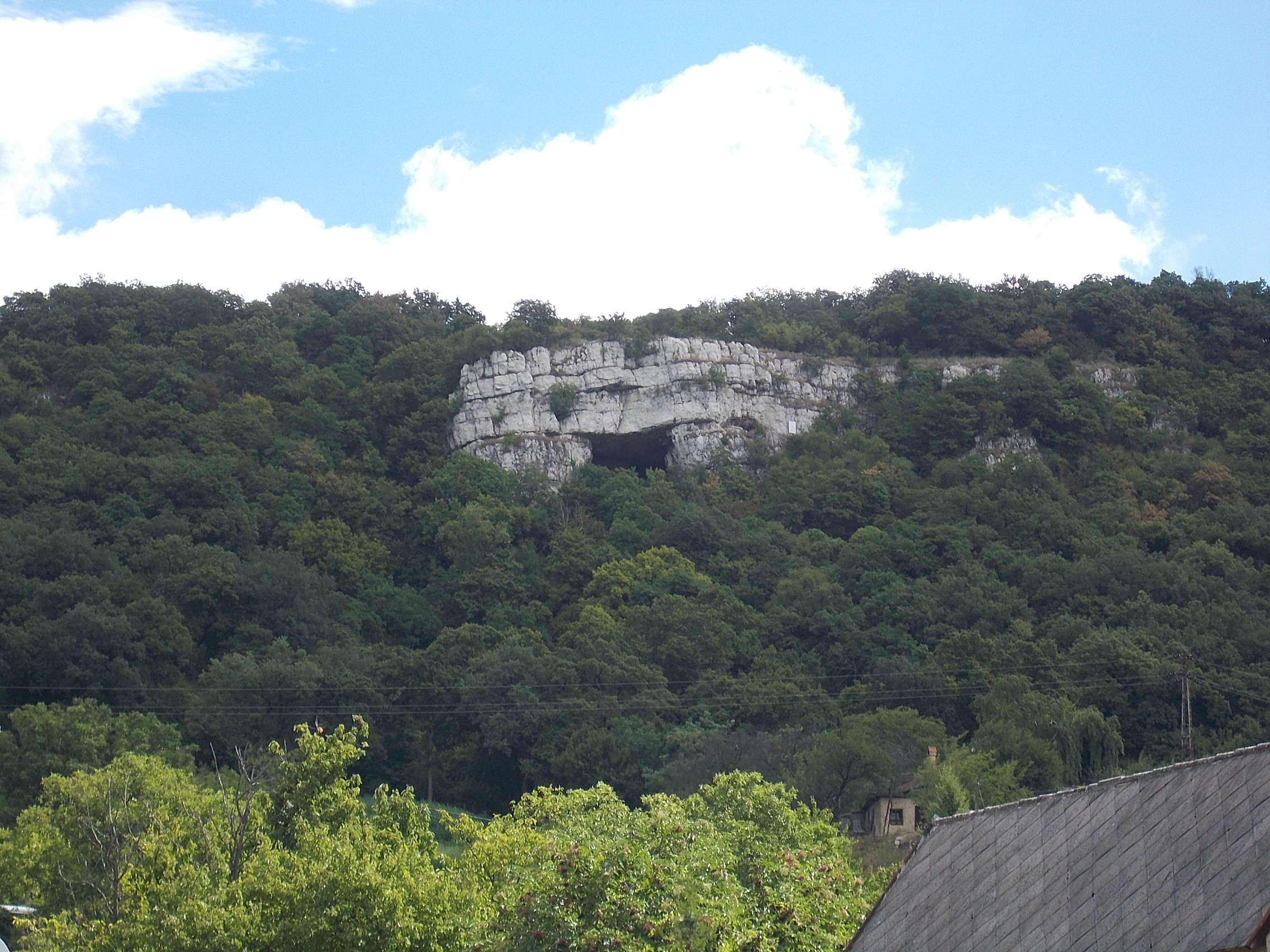 Szelim Cave in Gerecse Mountain, Tatabánya, Komárom-Esztergom County, Hungary.